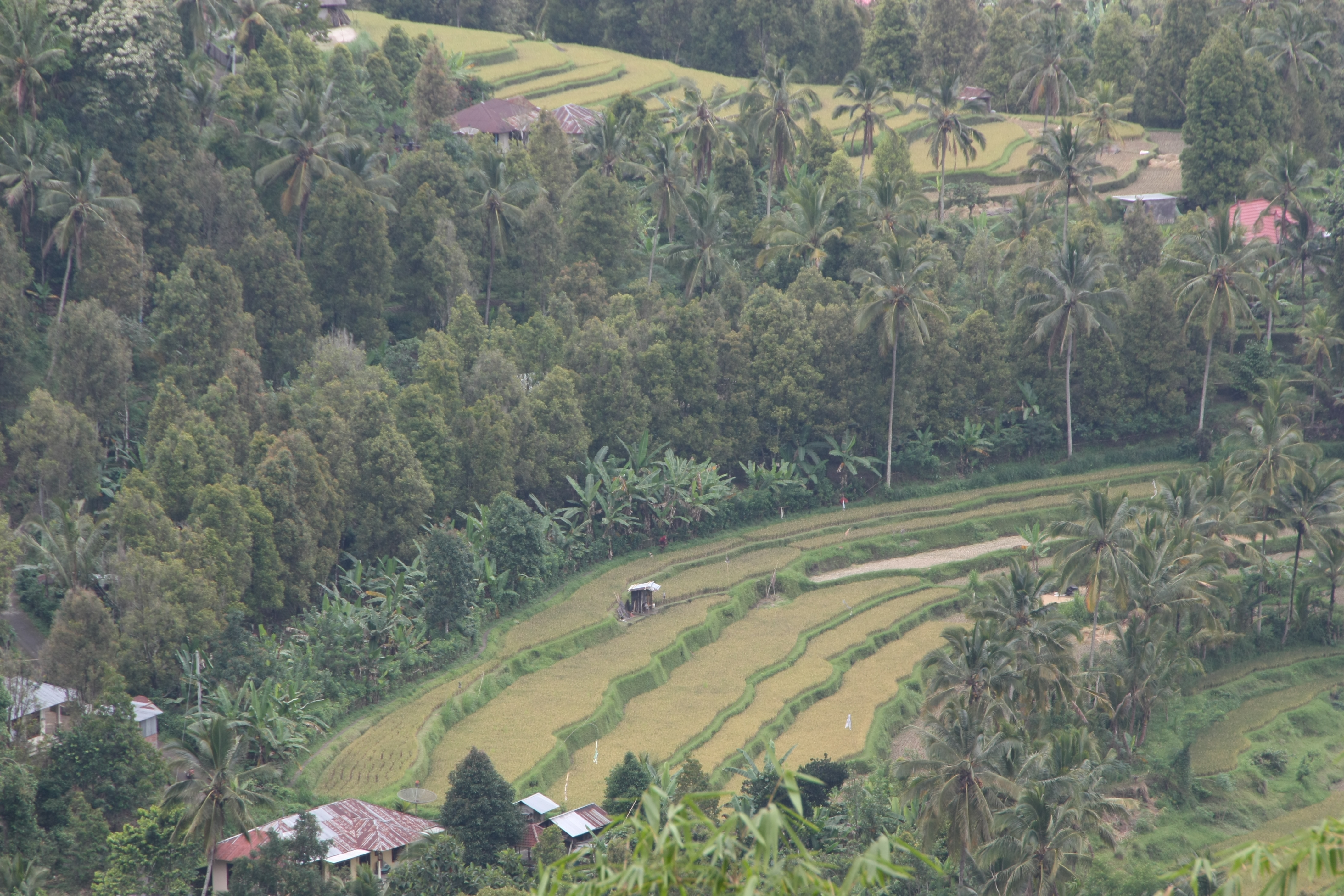 View on rice terraces in Munduk, Bali